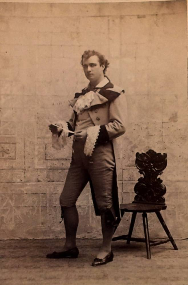 The actor Henry Hallam (1850-1921) in costume c1875